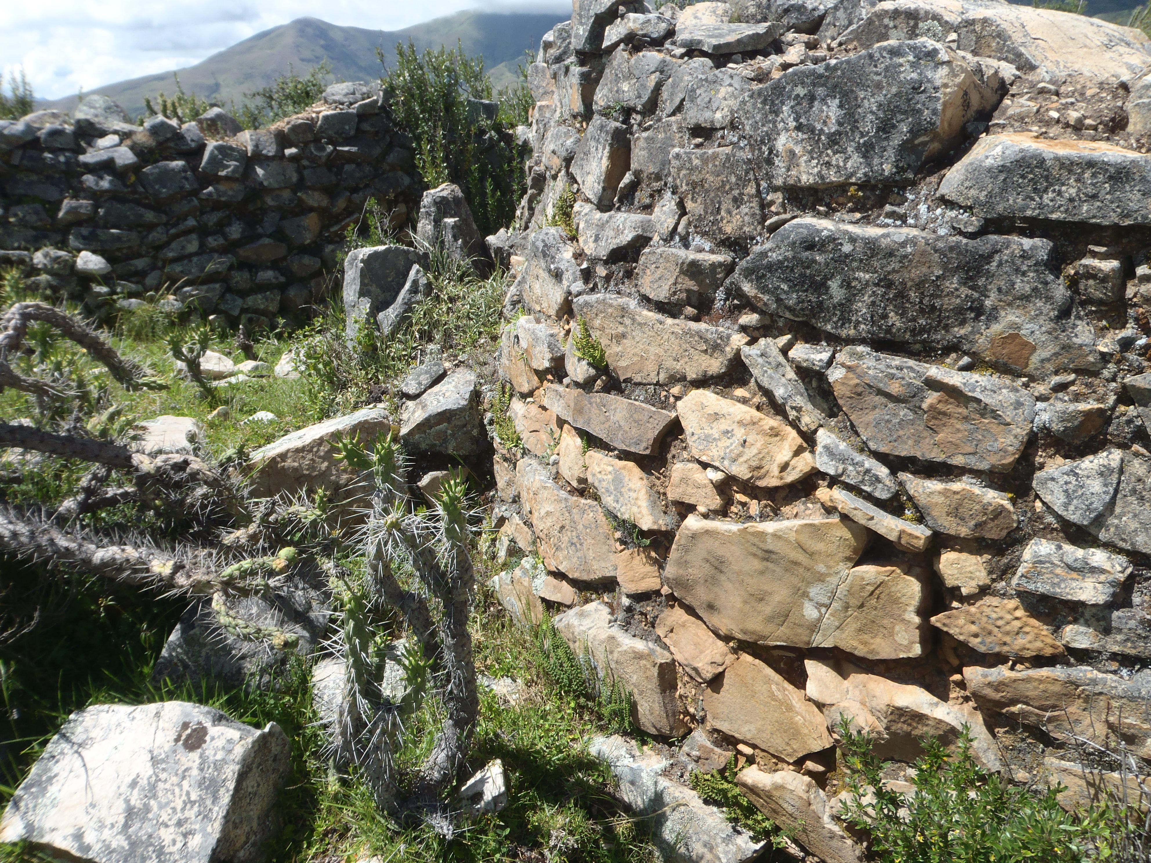 Yanaca is a pre-inca ruins group situated in Peru, Apurimac region, Yanaca district. Tunay Kassa is one of these ancient village, situated at 4 km from Yanaca village. This picture represents some Tunay’s houses. One of them is oval.